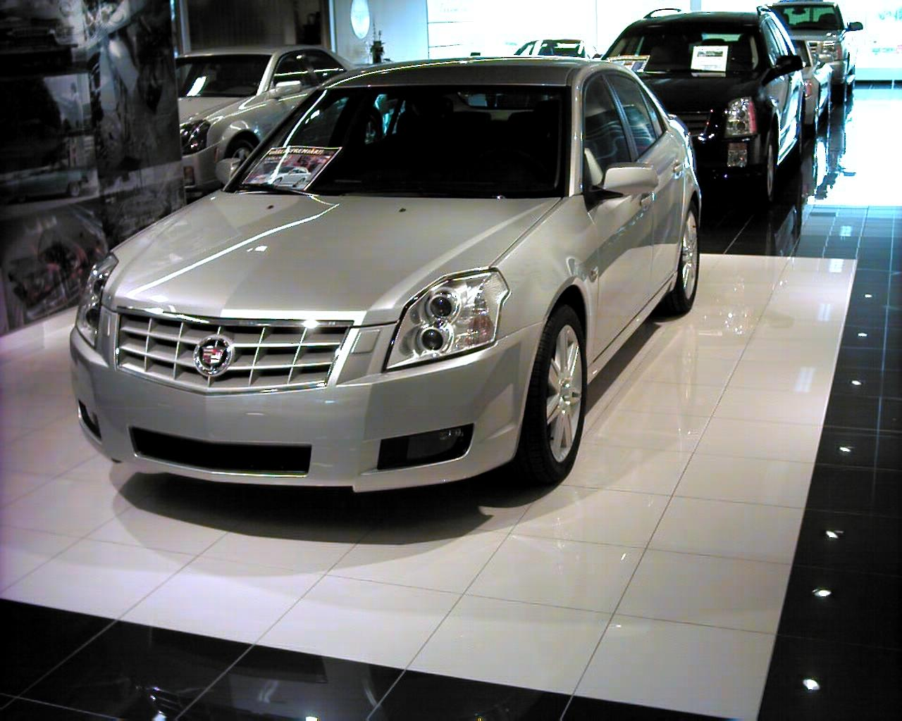 Cadillac BLS. Photo taken by User:Boivie in Jönköping 7 April 2006